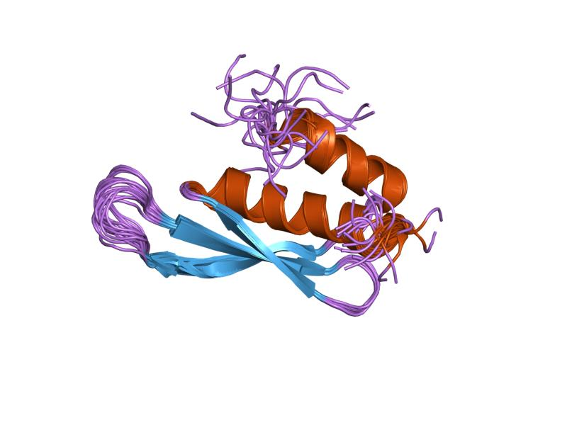 Cartoon representation of the molecular structure of protein registered with 2b7t code.